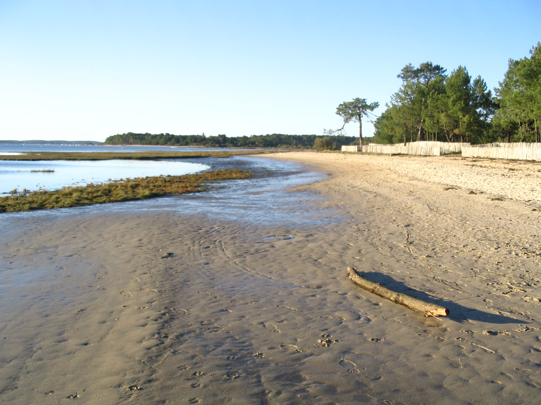 Natural reserve on the Bassin d'Arcachon - Andernos-les-Bains, France Author:P.Charpiat 2006